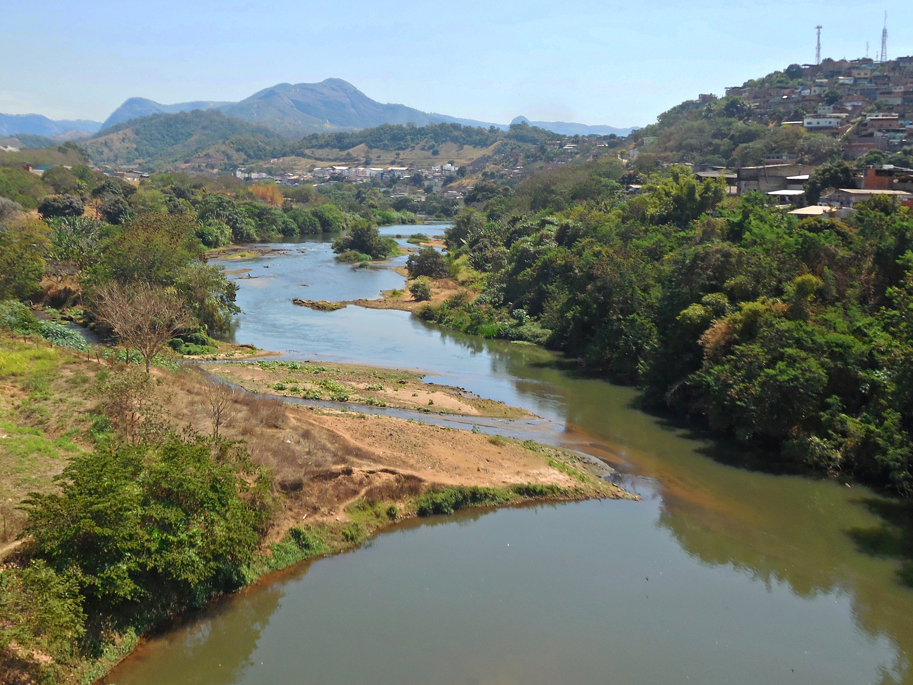 Piracicaba River between Timóteo and Coronel Fabriciano, Minas Gerais, Brazil.